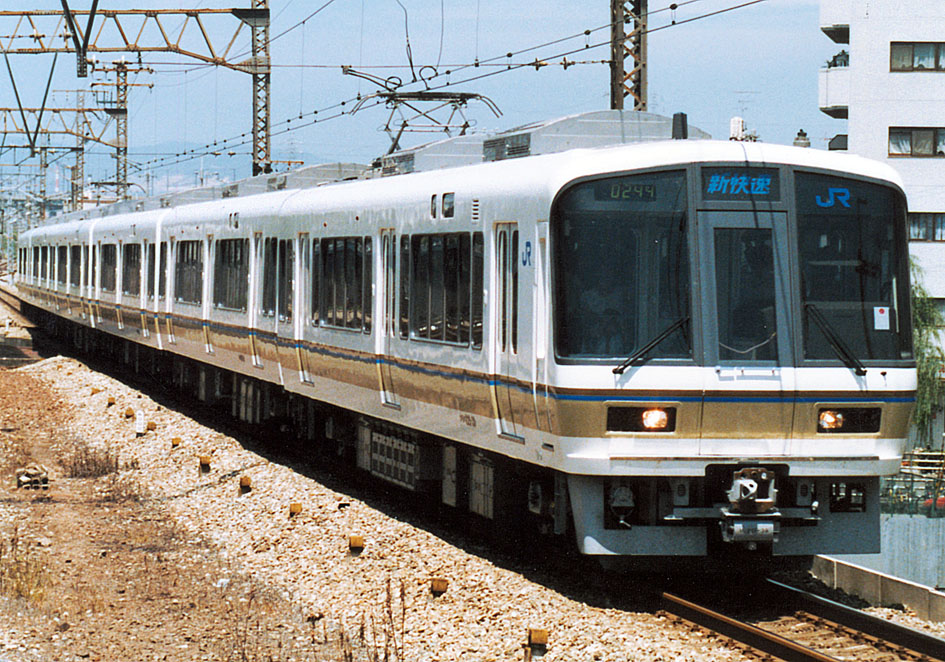 JR West 221 series EMU for the Special Rapid Service